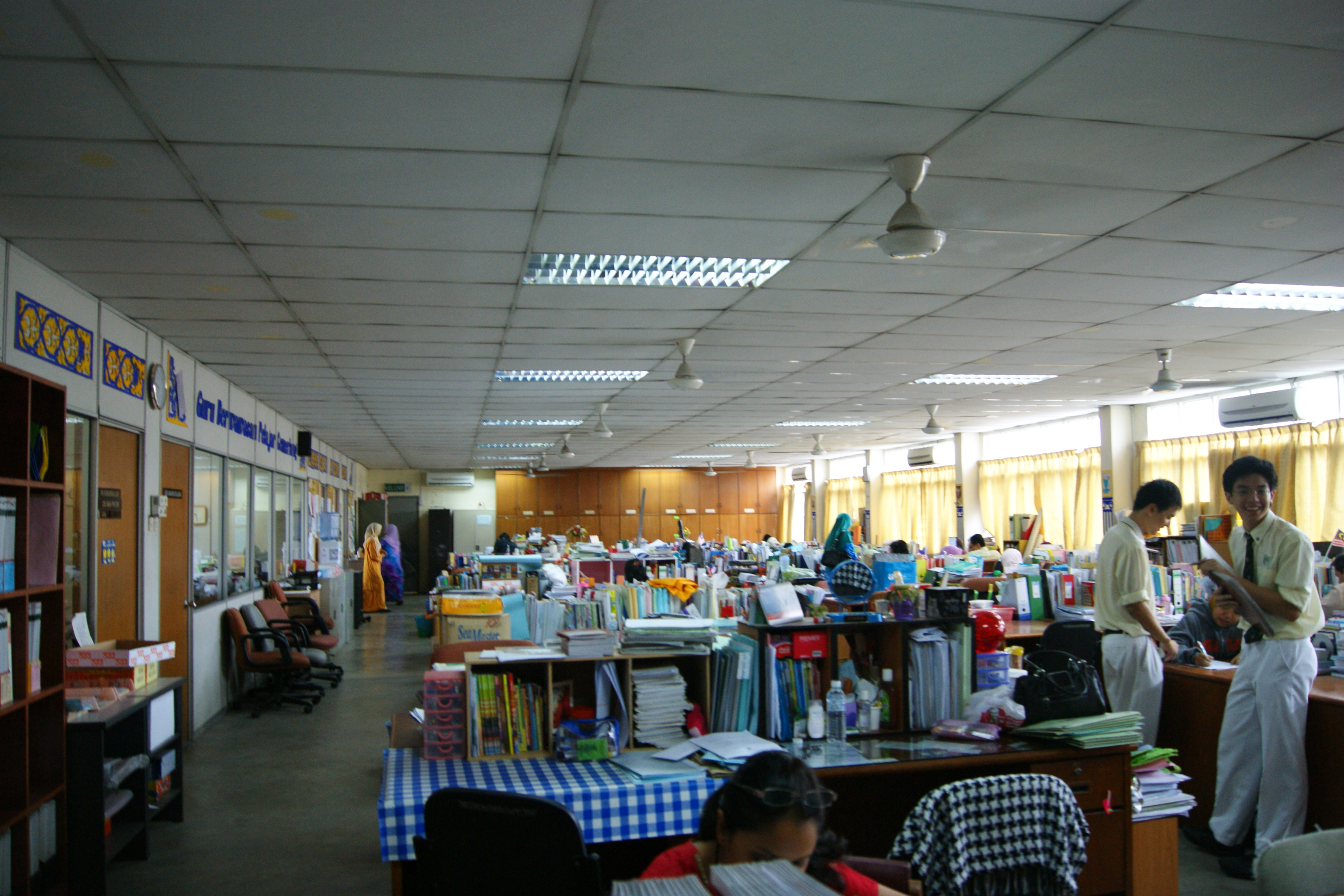 Staff Room 2 - Last days of school